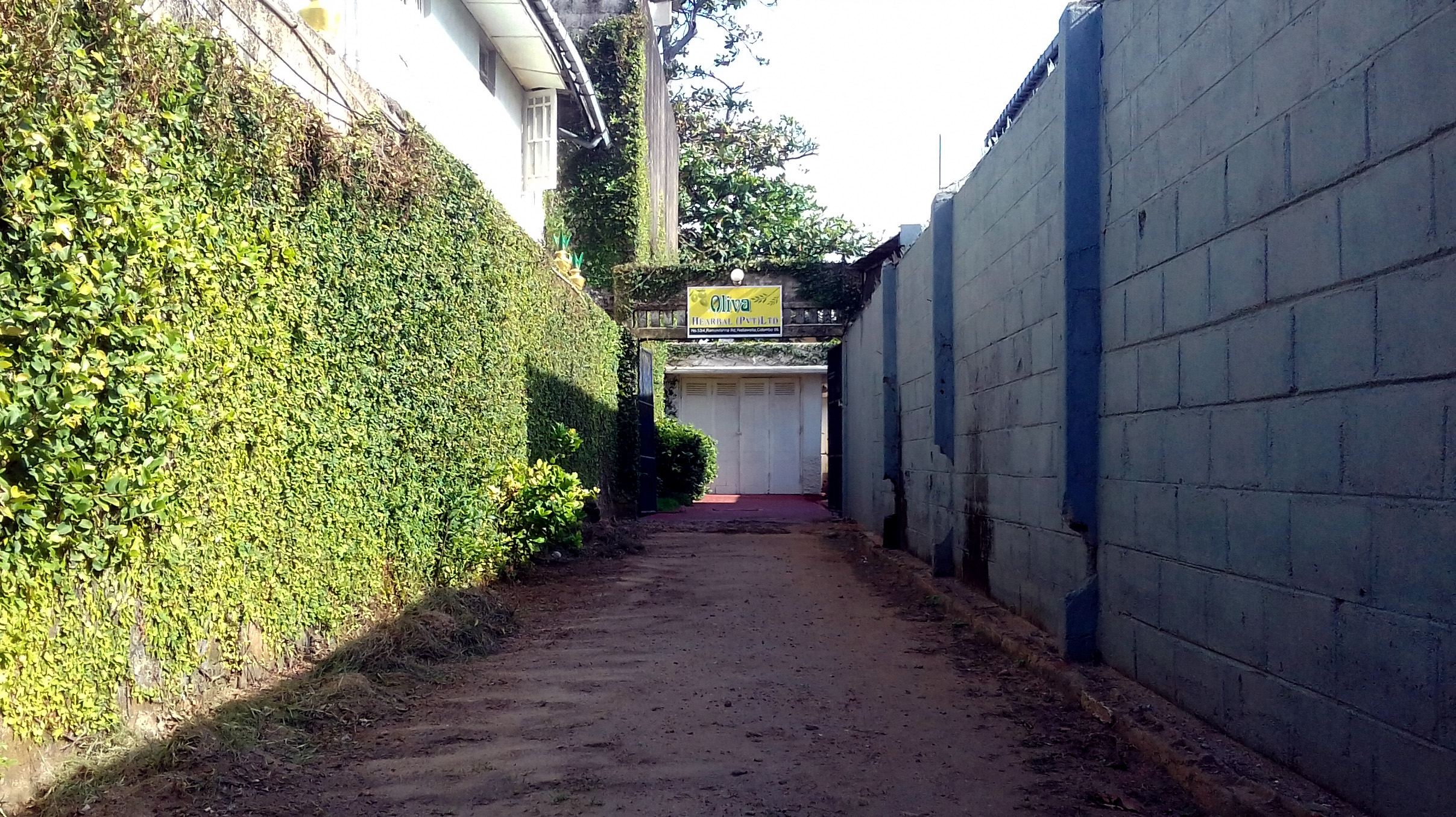 An entrance of spa in Colombo